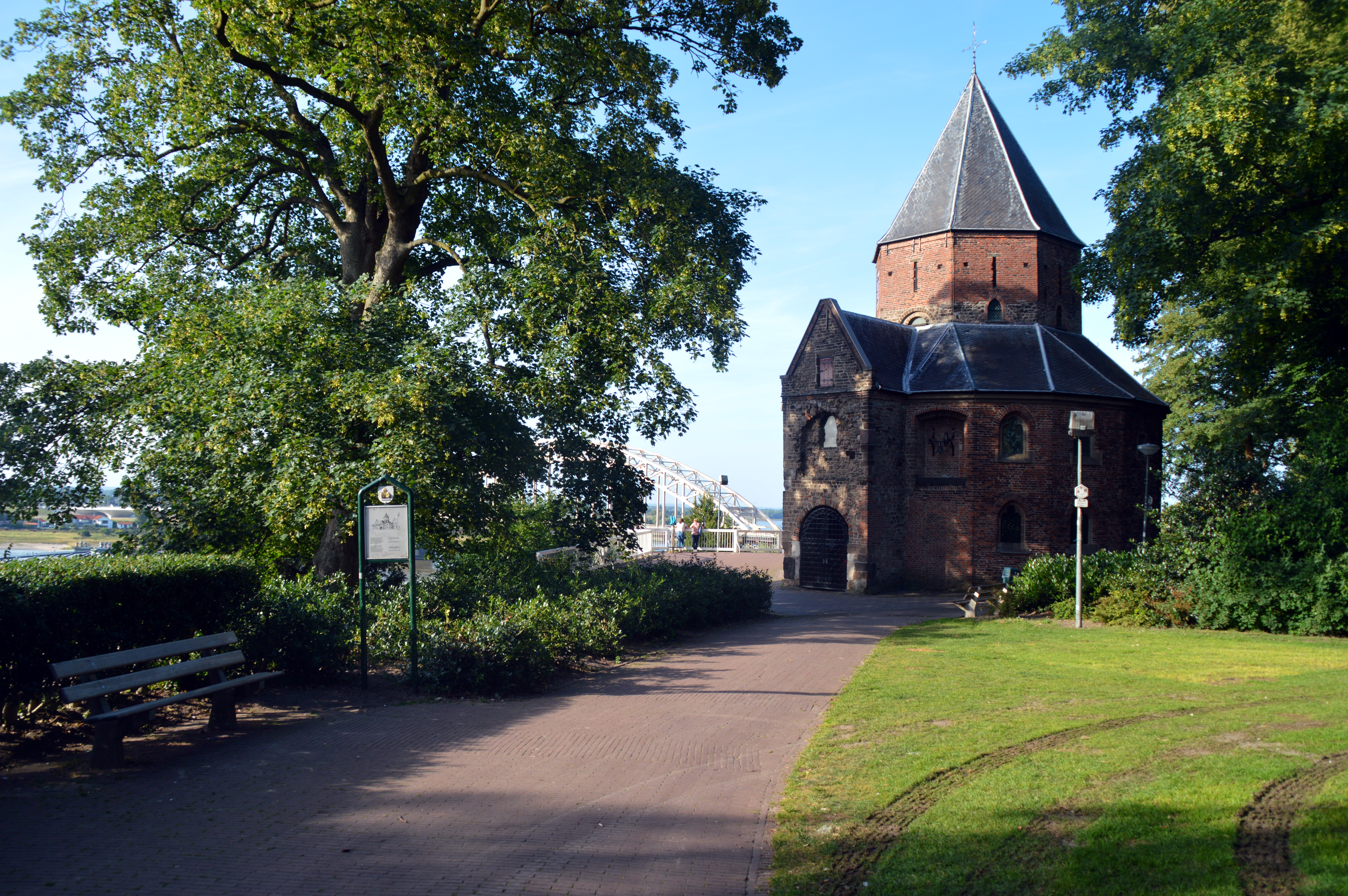 Sint-Nicolaaskapel, Valkhof park Nijmegen